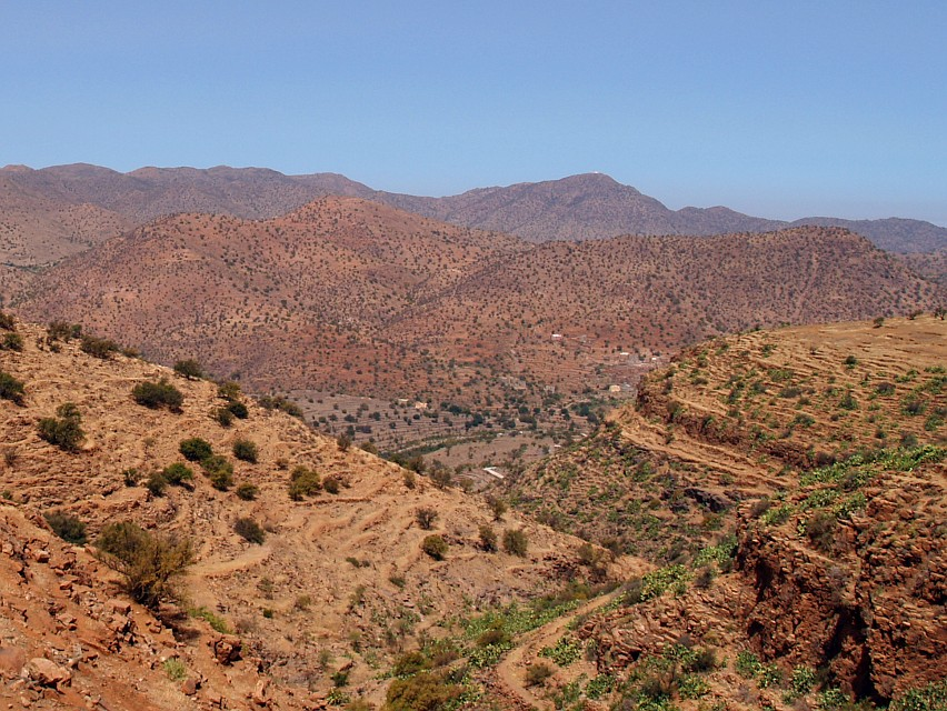 Somewhere on the road from Ait Baha to Tioulit and Tafraout. Note: the location isn't too accurate; it may have an error up to 6 km North or South.